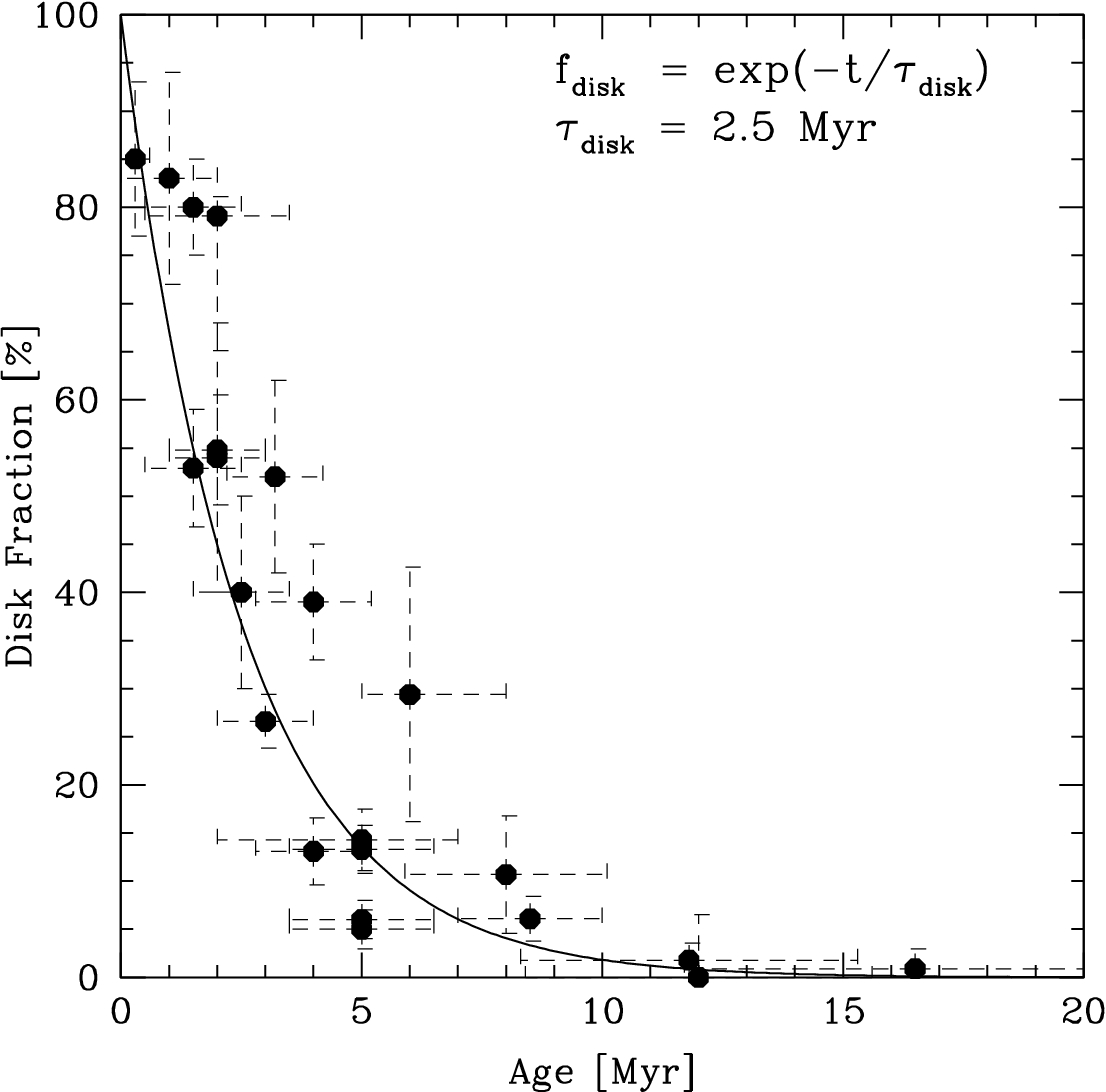 Fraction of stars in stellar clusters and associations of various ages (in millions of years) showing spectroscopic or photometric evidence of having a protoplanetary disk. From review by E. Mamajek (2009) in EXOPLANETS AND DISKS: THEIR FORMATION AND DIVERSITY: Proceedings of the International Conference. AIP Conference Proceedings, Volume 1158, pp. 3-10."Initial Conditions of Planet Formation: Lifetimes of Primordial Disks"